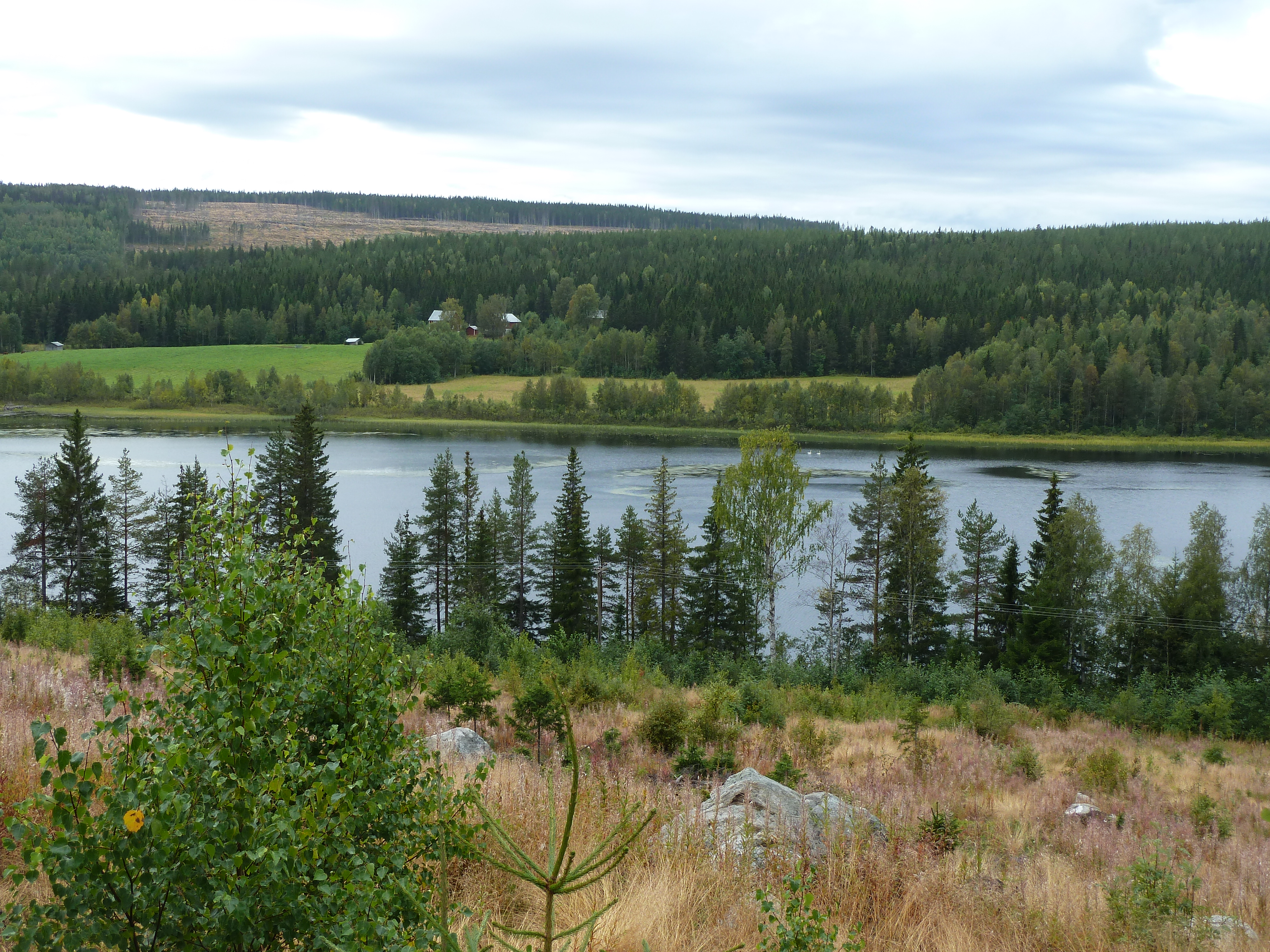 Skalmsjösjön